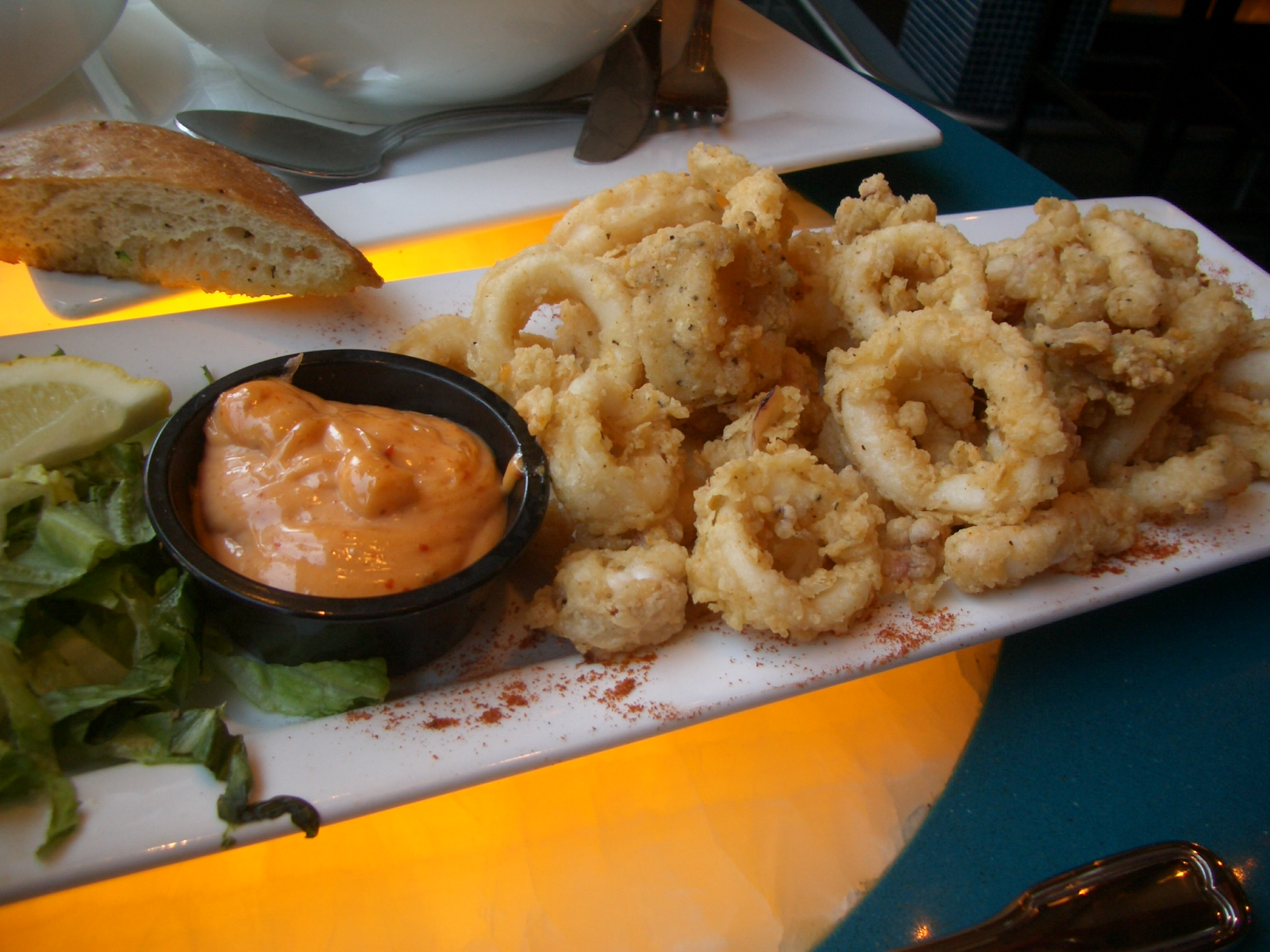 A photograph of Fried calamari (squid).